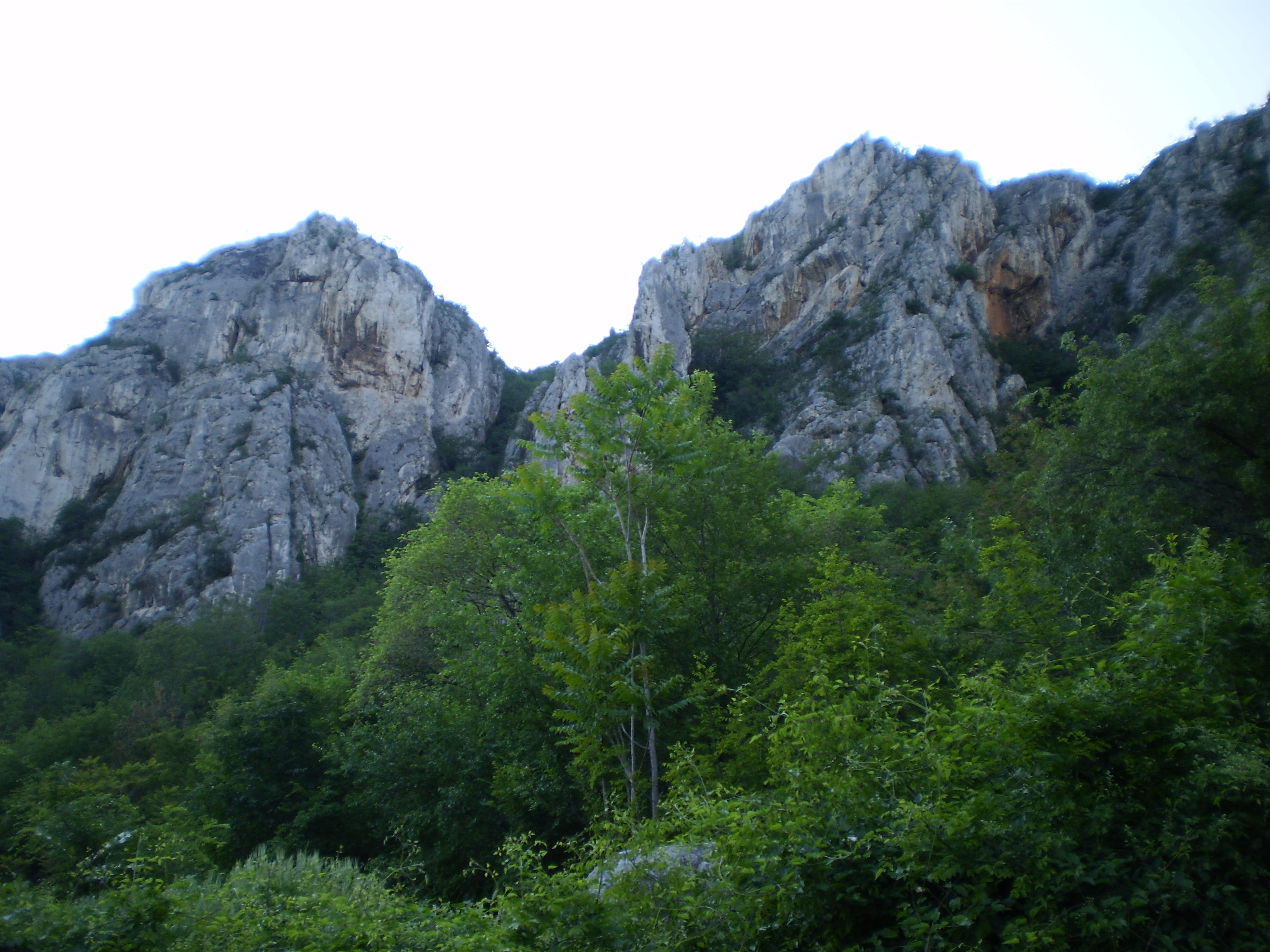 Karst landscape near Sicevo (Sicevacka klisura)